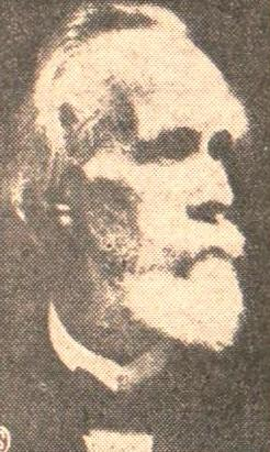 J.F. Klinkhamer